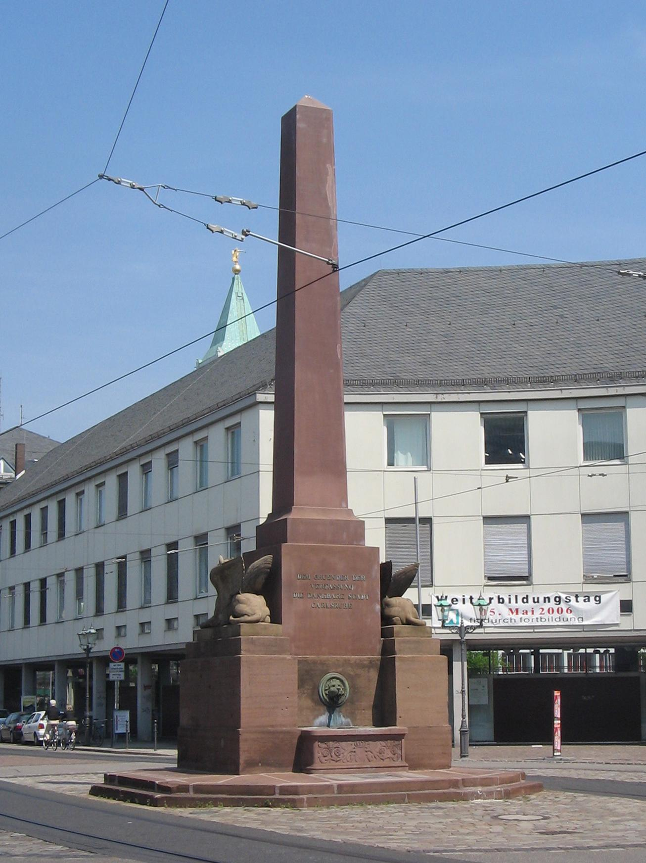 Monument to the Constitution of Baden, in Rondellplatz, Karlsruhe, Germany. Obelisk flanked by seated griffins (heraldic animal of Baden). Tower of Evangelische Stadtkirche in background. Overhead wires are for tram, which goes around this on either side. Inscription is "DEM GRUENDER DIE VERFASSUNG DIE DANKBARE STADT CARLSRUHE" (roughly "To the founder of the Constituition, [from] the grateful city of Karlsruhe"